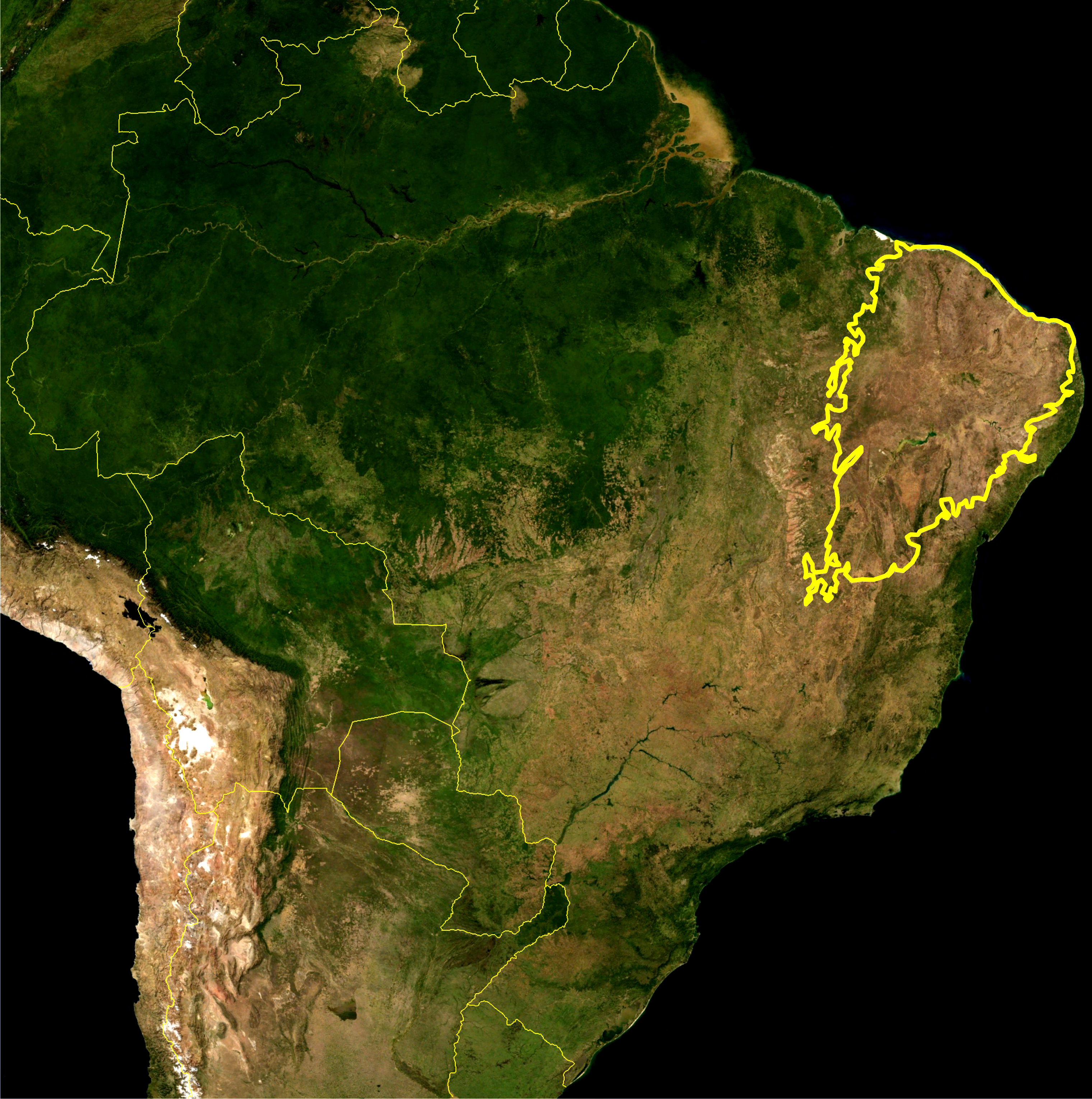 This is a map location of the Caatinga Scrub. The yellow line encloses Caatinga scrub as delineated by the IBAMA. I, Miguelrangeljr, made it using NASA Blue Marble imagery and Corel Draw X4 and Photoshop CS5.